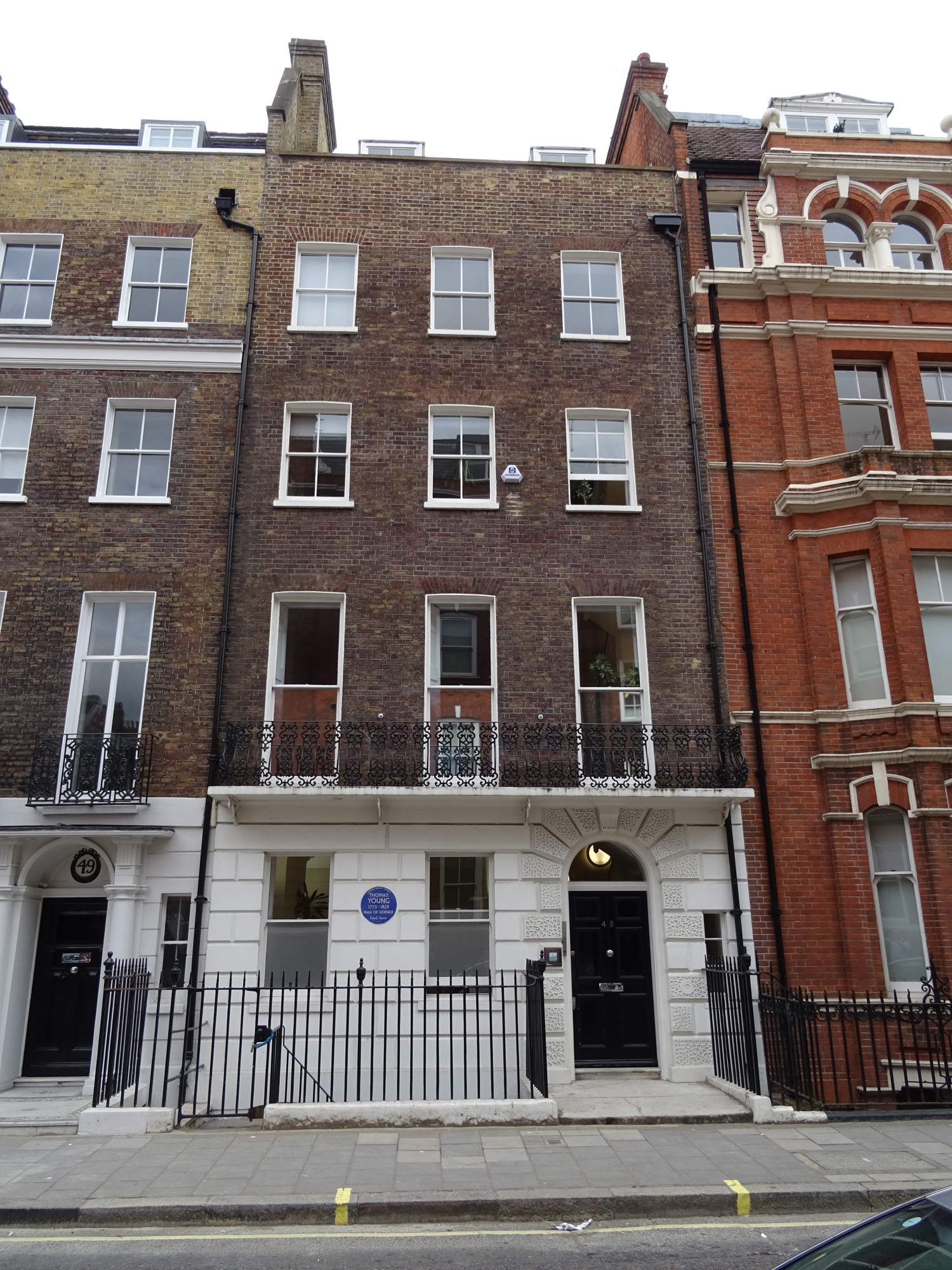 THOMAS YOUNG 1773–1829 MAN OF SCIENCE lived here